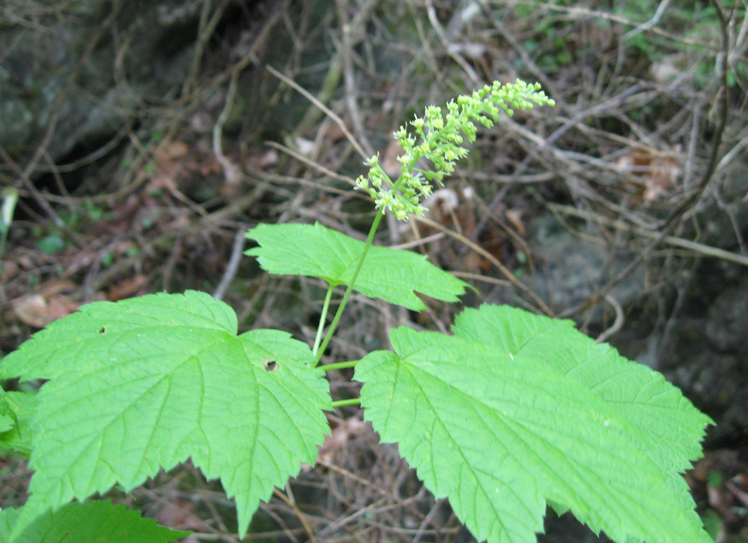 Acer spicatum flowers